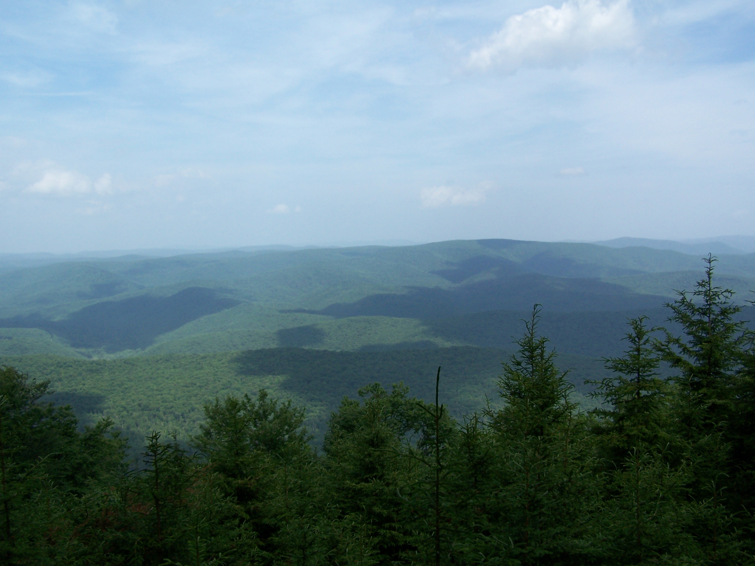 View from Gaudineer Knob in Monongahela National Forest. Foreground trees are Picea rubens.